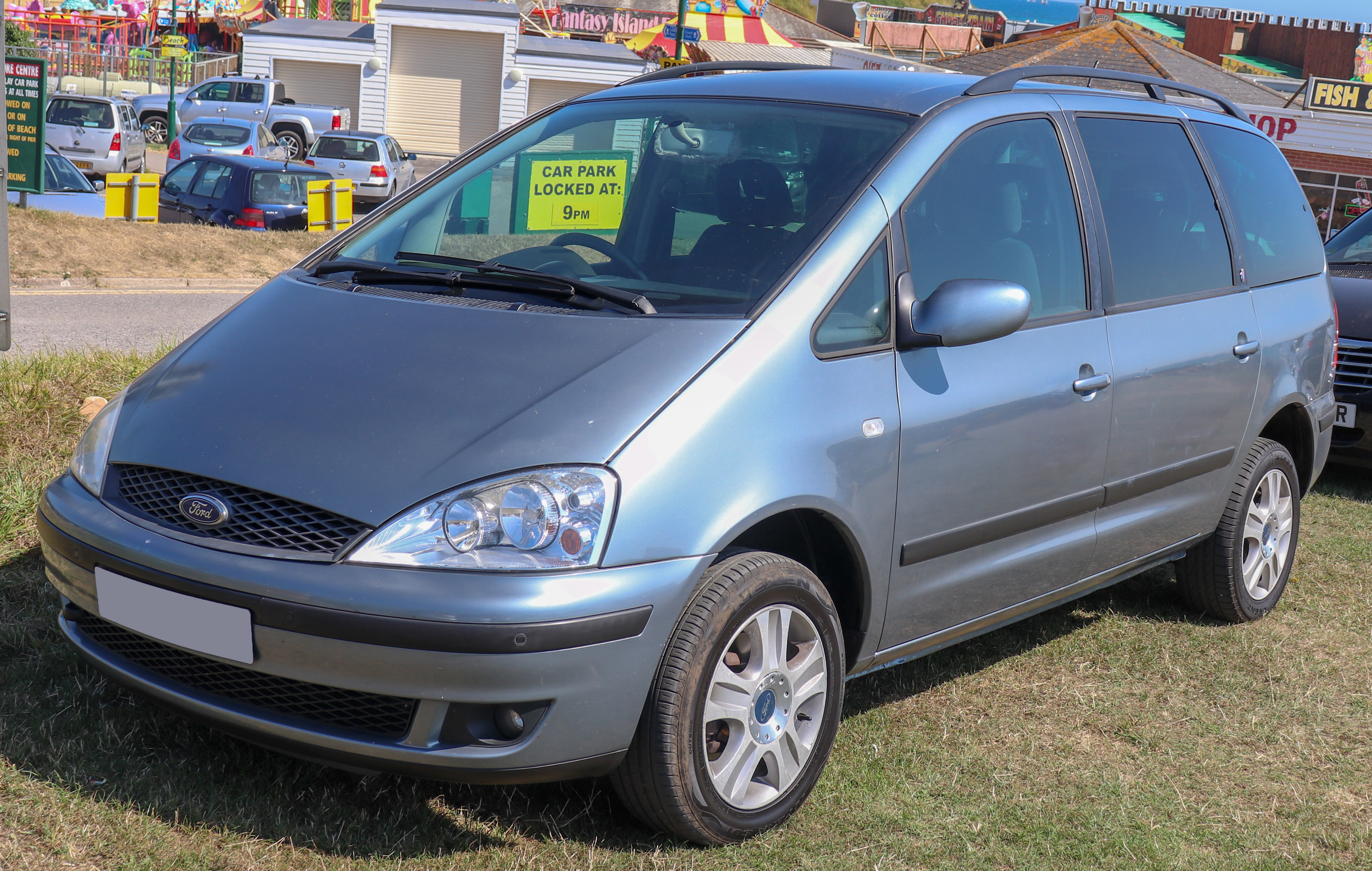 2001 Ford Galaxy Ghia 16V 2.3 Front (Very well kept example, the badges on most of these tend to fades out) Taken in Weymouth, Dorset